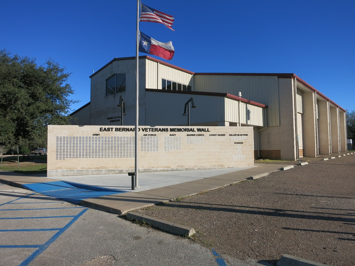 Photo shows the Veterans Memorial at the Norma Lee Pullen Gymnasium at Leveridge St, East Bernard, TX 77435. View is toward the southeast.